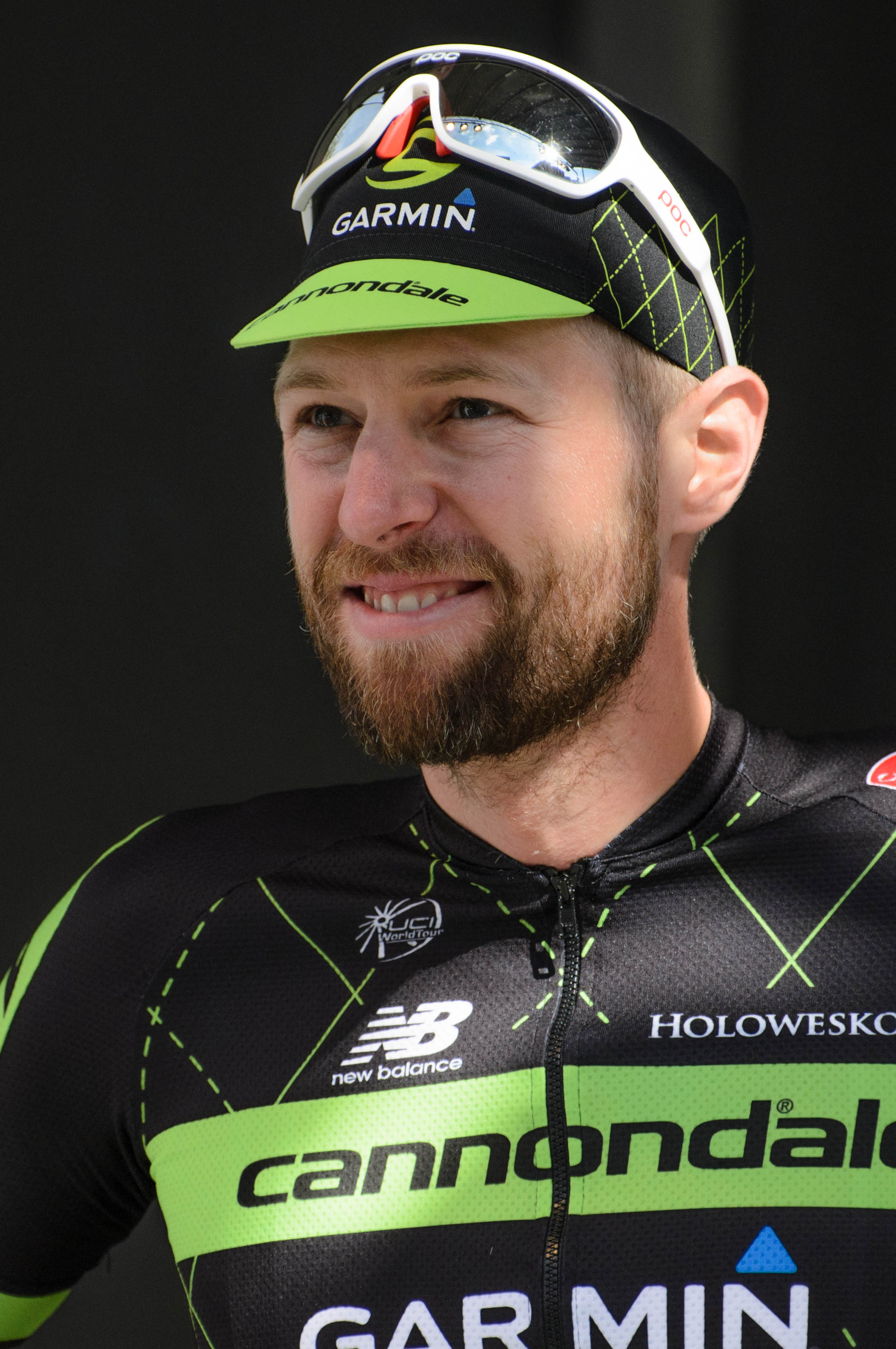 Ryder Hesjedal at the 2015 Tour of Alberta. Please attribute Connor Mah if used elsewhere